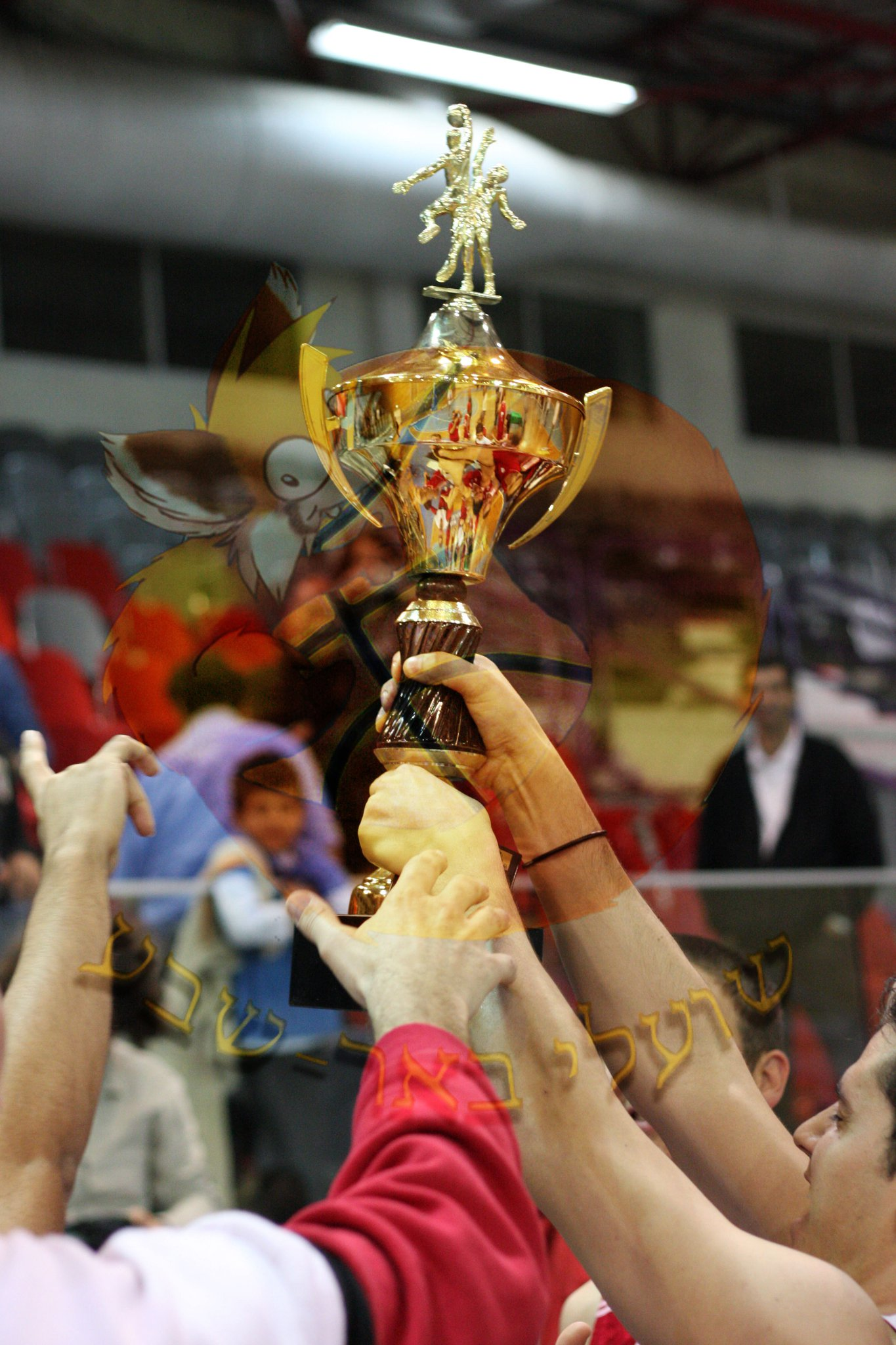 Backetball-fox-team-cup